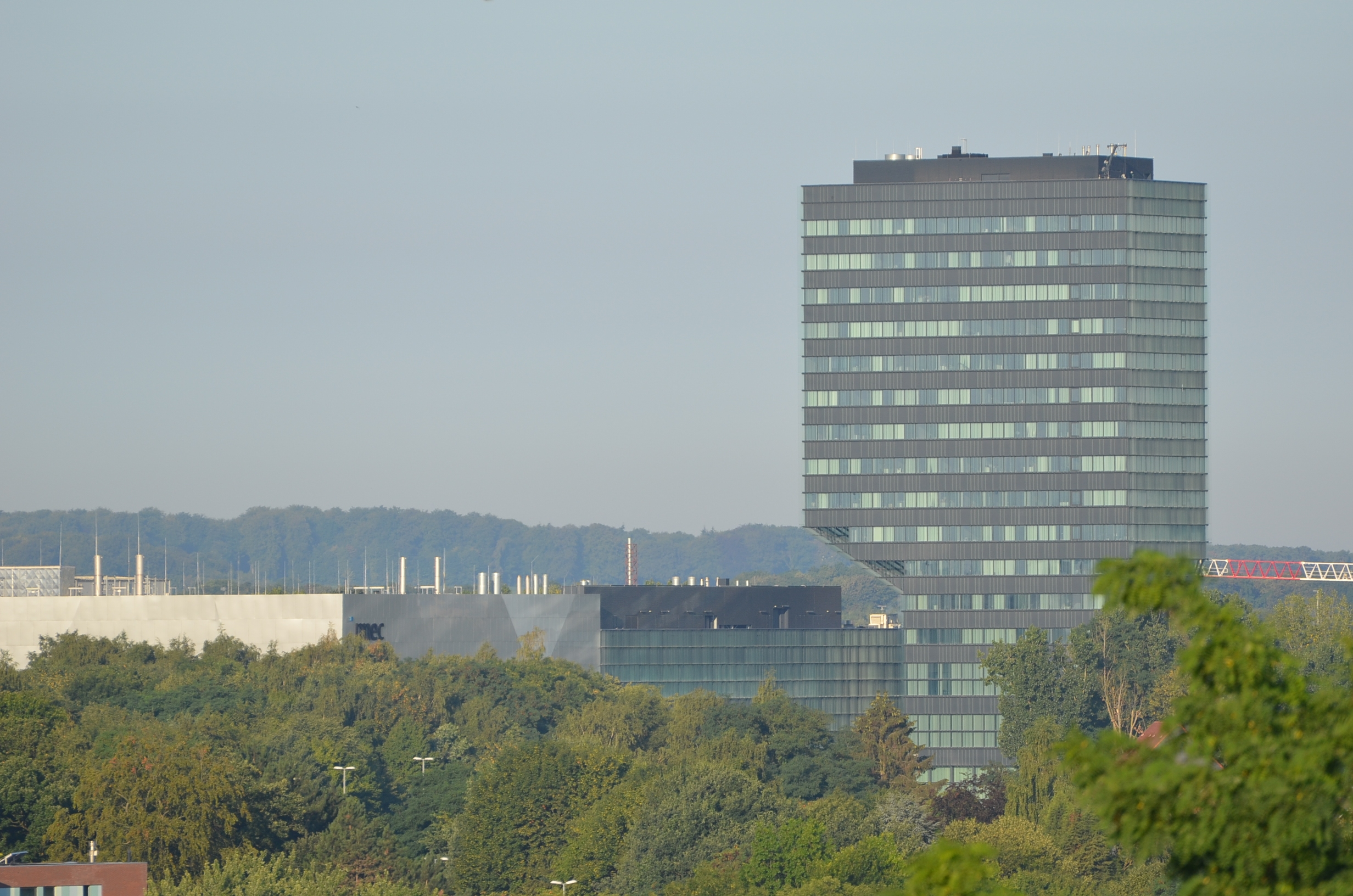 IMEC Headquarters Leuven, Belgium